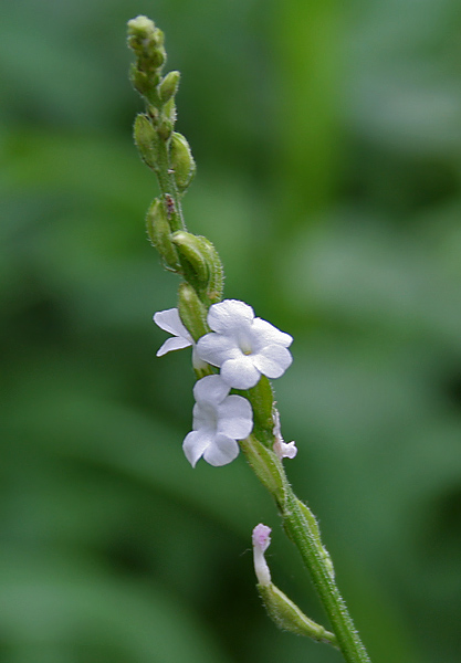 Priva cordifolia syn. Priva leptostachya in Talakona forest, in Chittoor District of Andhra Pradesh, India.